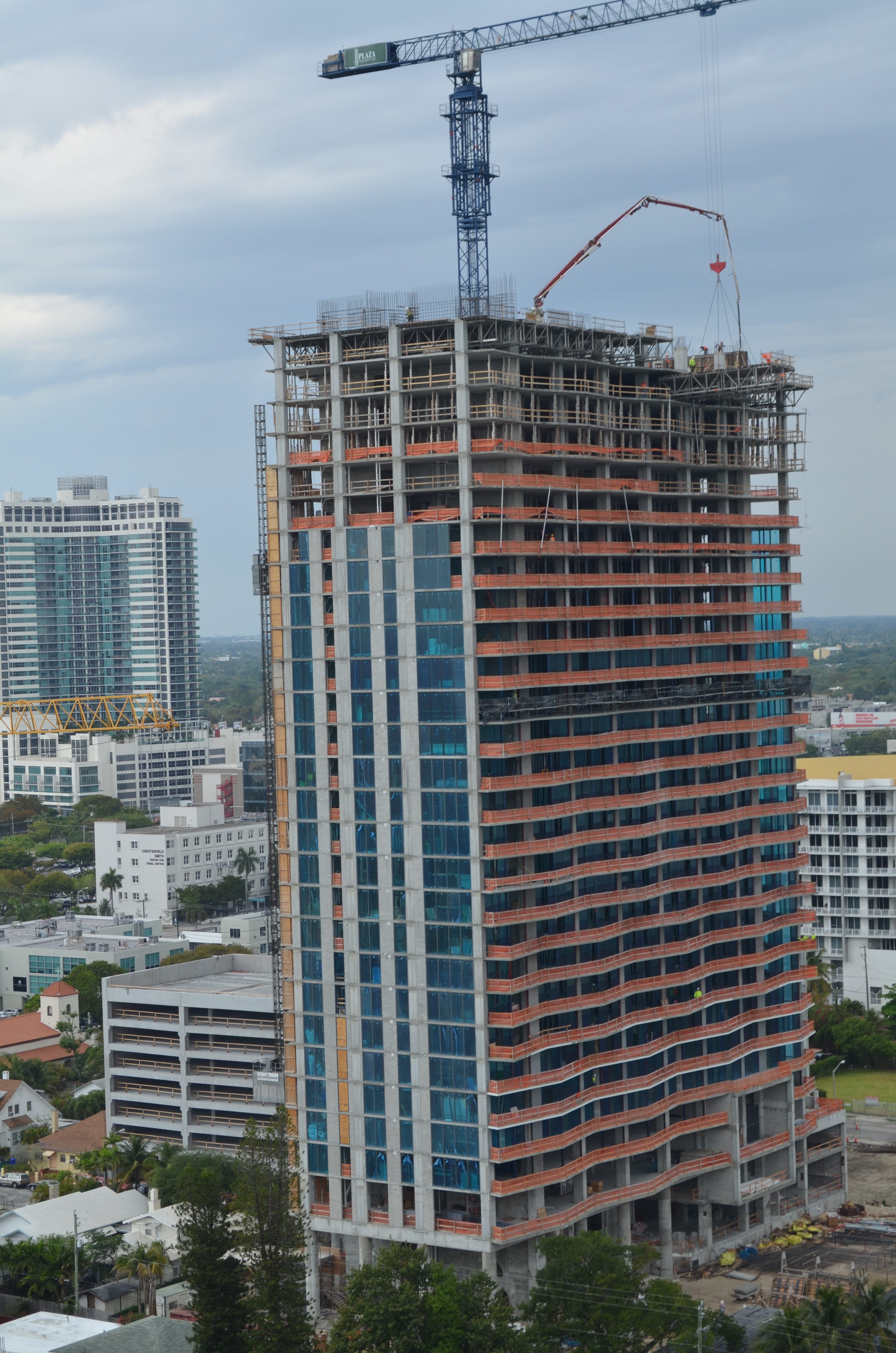 Icon Bay building under construction in Miami.